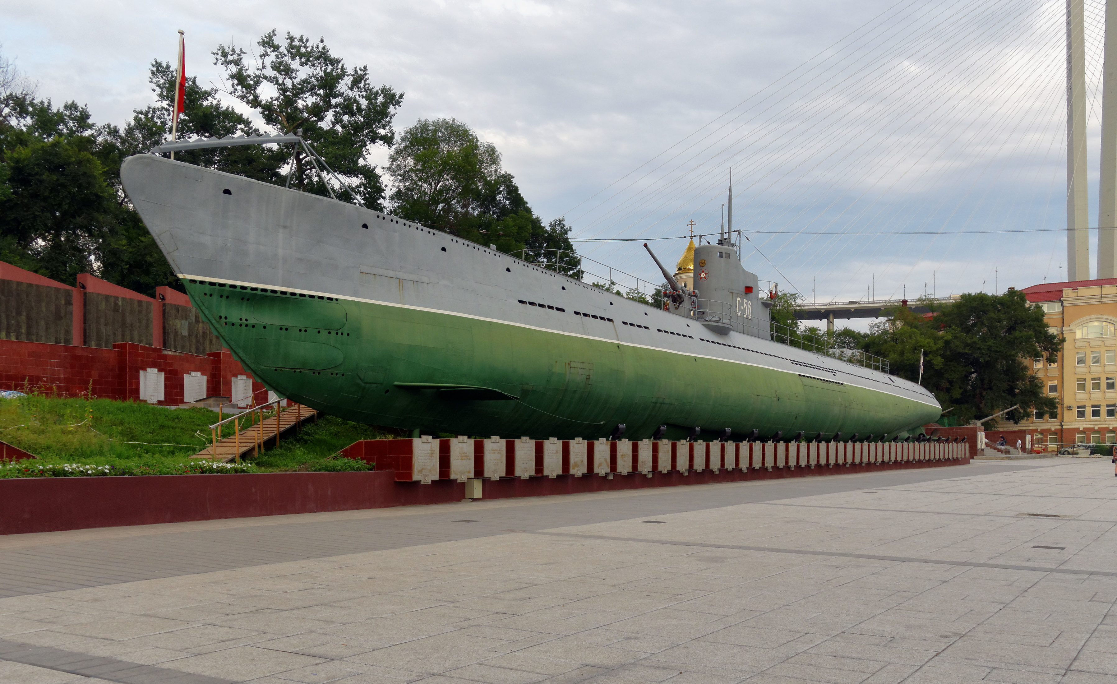 Vladivostok. Submarine S-56